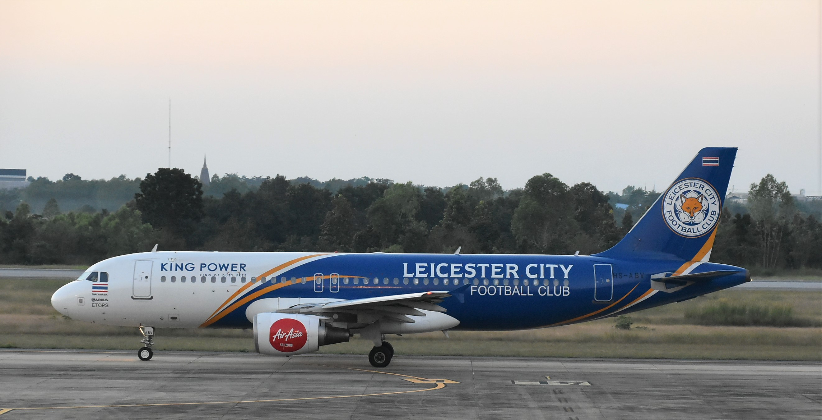 Airbus A320 of Thai AirAsia,in spl."King Power King of Duty Free & Leicester City Football Club" clrs./titles arriving after sunset at Khon Kaen-KKC, Thailand, 04/11/18. Dedicated to the club owner Vichai Srivaddhanaprabha who,along with 4 others, so tragically lost their lives on 27/10/18. R.I.P.